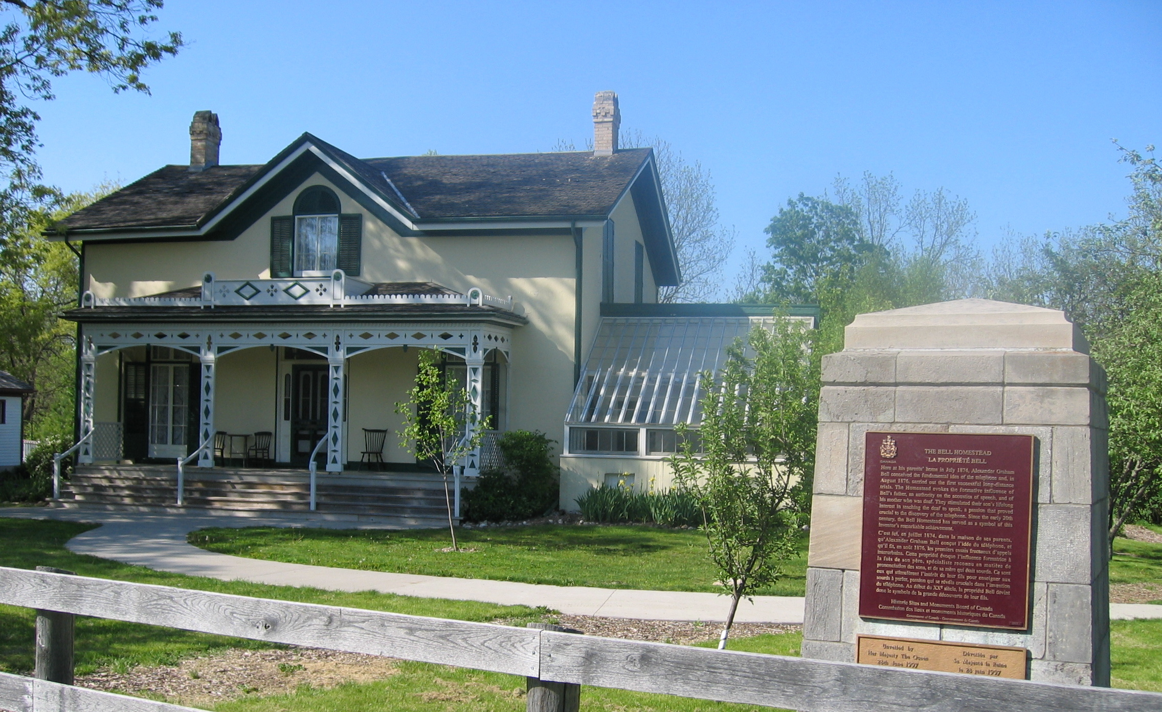 The Bell Homestead National Historic Site, Brantford, Ontario, Canada, including the Visitors' Center, Henderson Home, Carriage House and Alexander Graham Bell's dreaming place, where he saw the undulating ripples on the Grand River